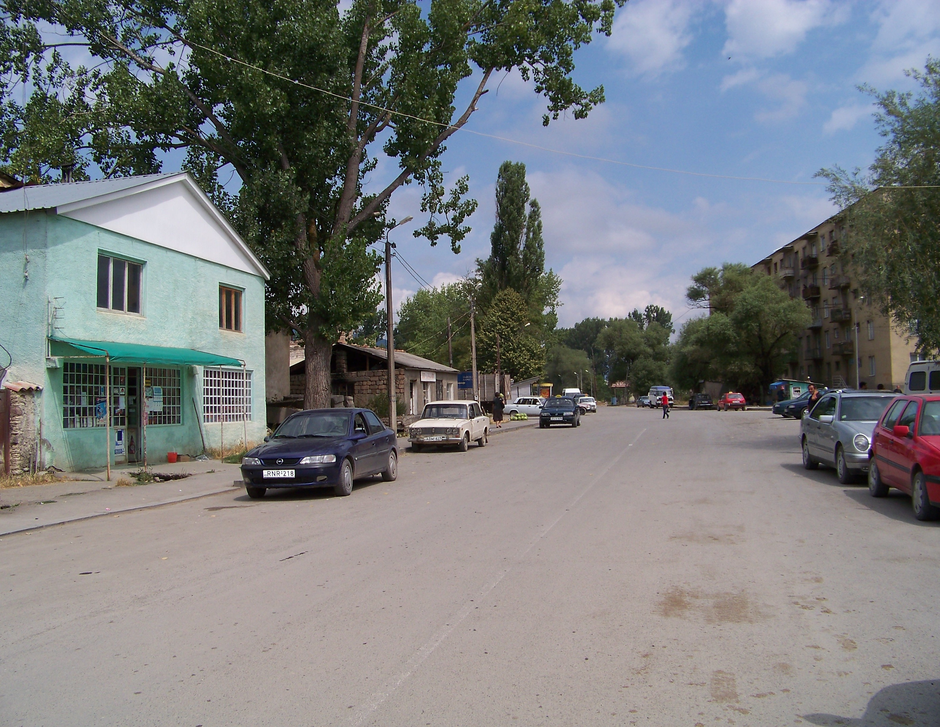 center of Tianeti